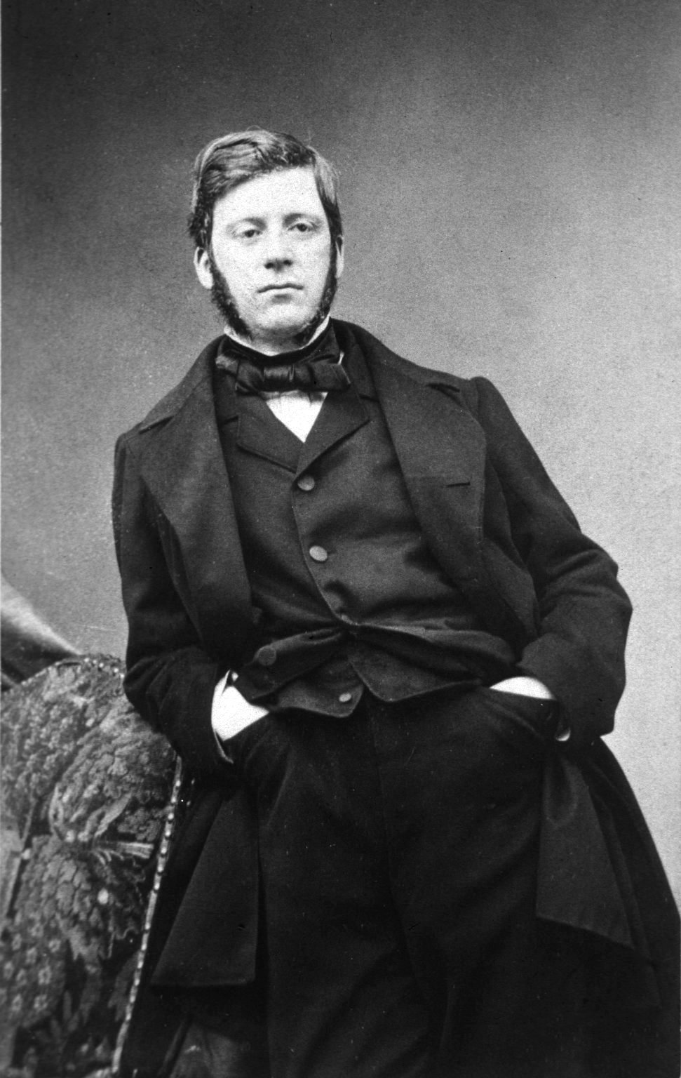 Anatole Chauffard, French physician